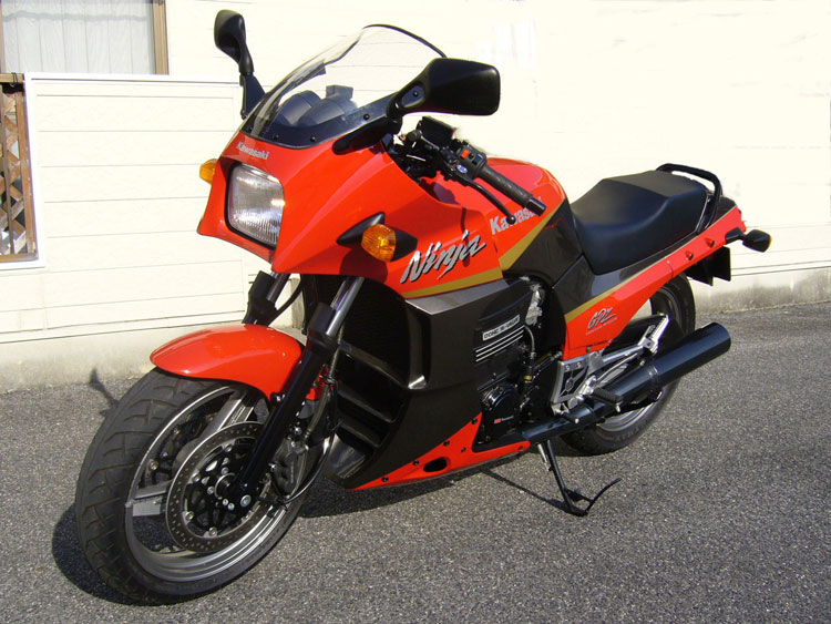 This is Kawasaki MotorCycle "GPZ900R_A16 FinalEdition". This MotorCycle is Malaysia_Ver. This photograph is FullNormal A16's Photo.